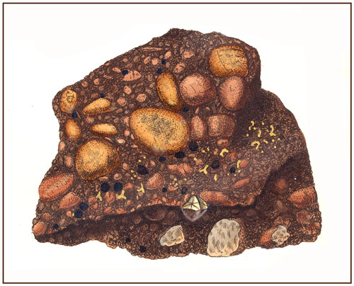 Diamond and Gold. James Sowerby for John Mawe Illustration from John Mawes 1812 book "Travels in the Interior of Brazil"